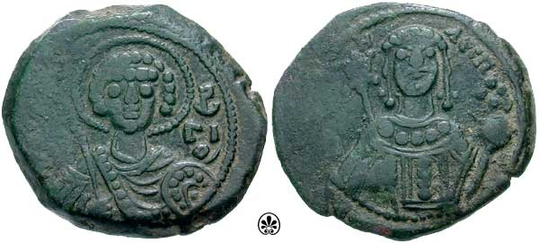 Manuel I. 1143-1180 AD. Æ Tetarteron (5.38 g). Thessaloniki mint. Facing bust of St. George / Facing bust of Manuel, holding labarum and globus cruciger. DOC IV 6; Hendy pl.17, 13; SB 1975.